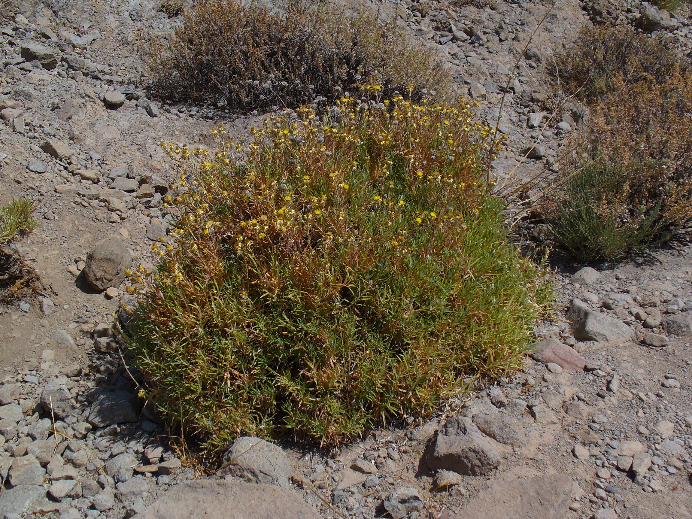 Canarian Carline Thistle, Habitus; Above La Culata, Gran Canaria, Canary Islands, Spain.